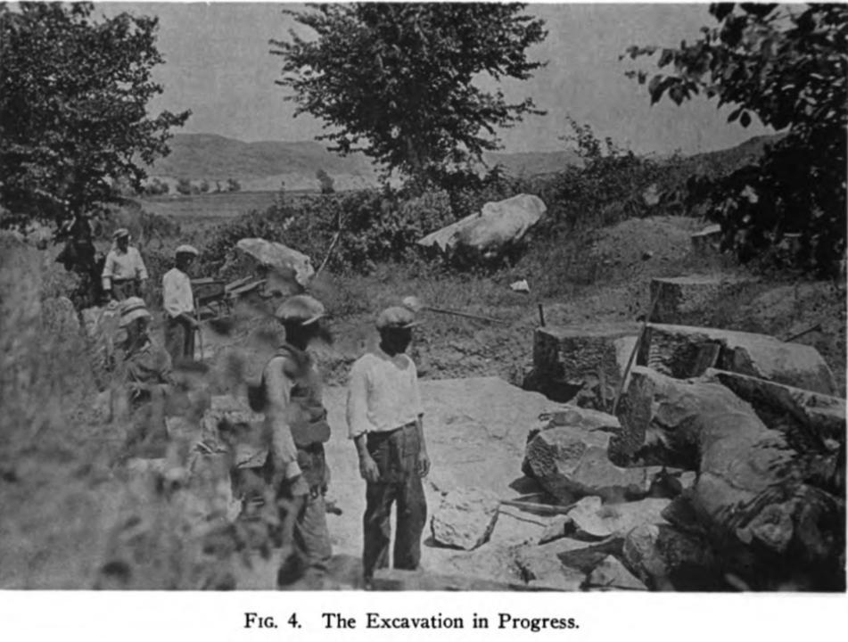 Early excavations for parts of the lion